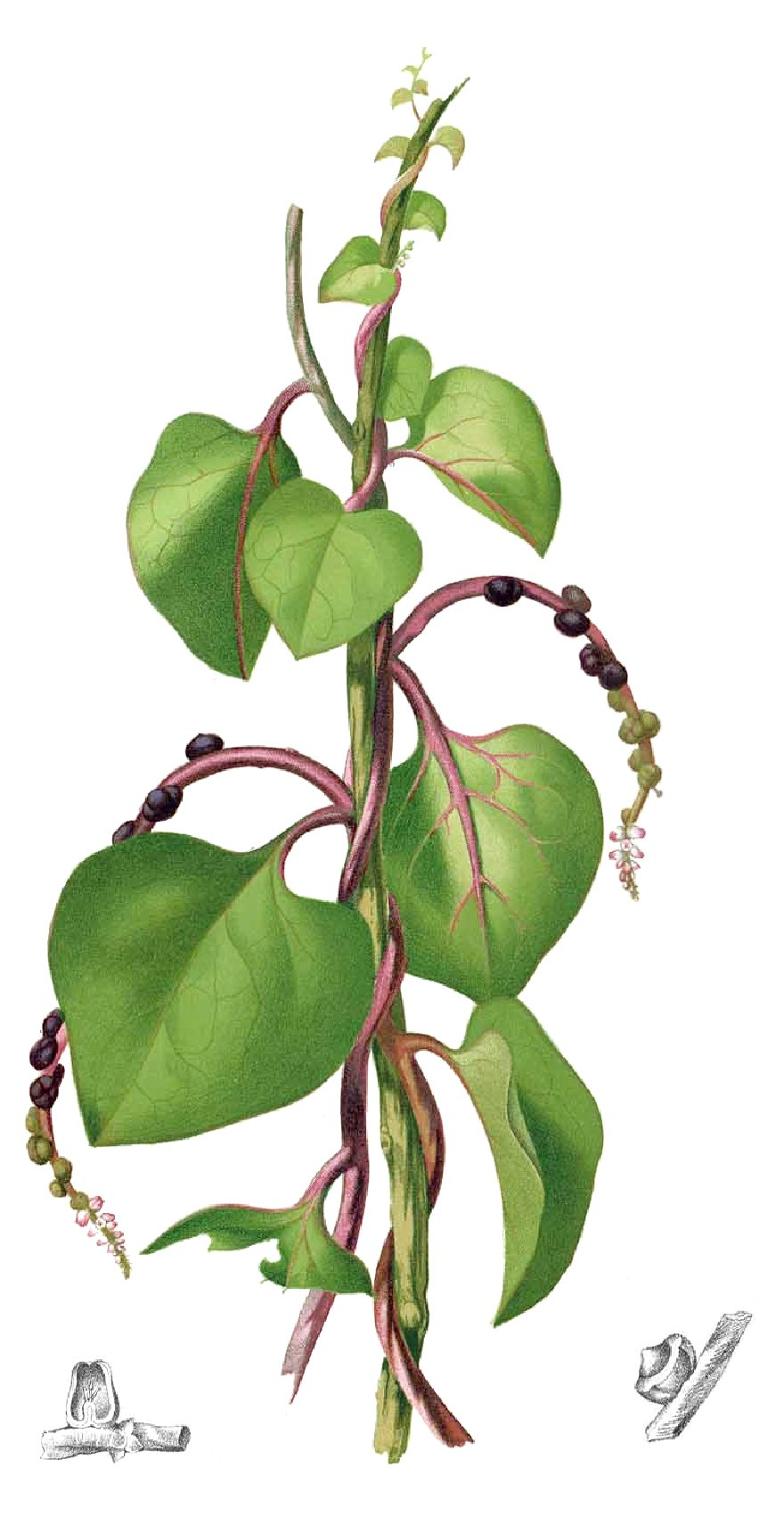 Plate from book